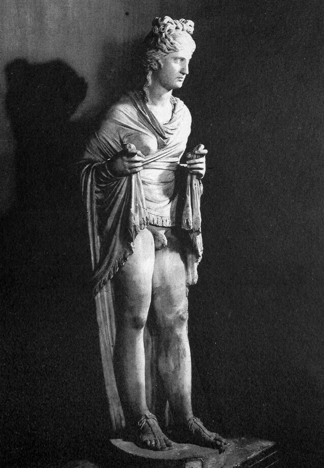 Statue of a hermaphroditus anasyromenos, at the Torlonia Museum in Rome, from the Giustiniani collection.